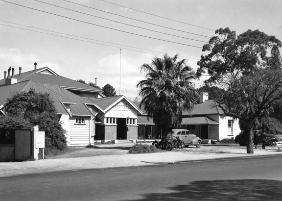 The Old Government Offices, also known as the Public Offices, in St Georges Terrace, Perth, Western Australia, taken in 1947. Built circa 1840, the building was later demolished in 1961 for the construction of Council House.